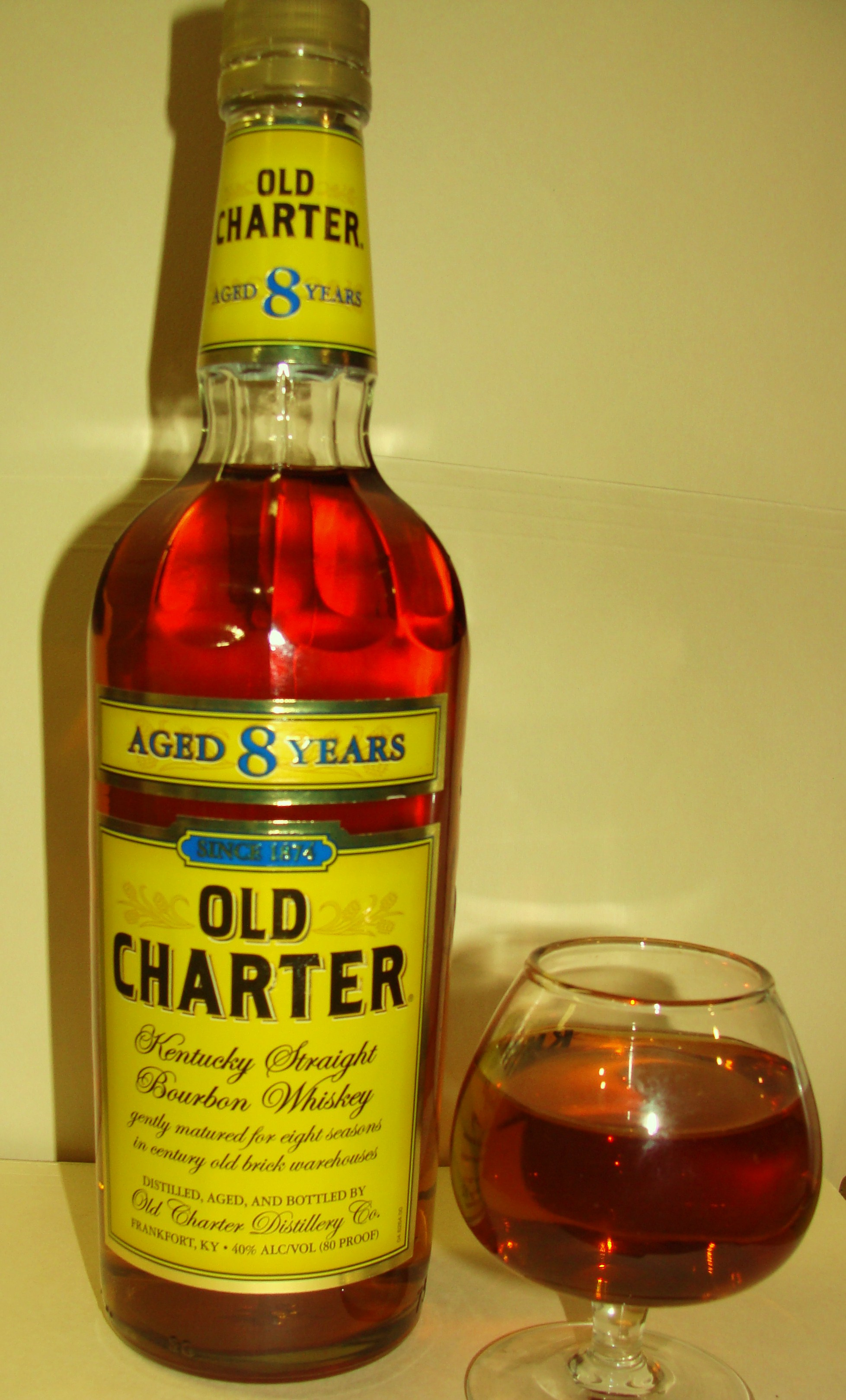 Old Charter